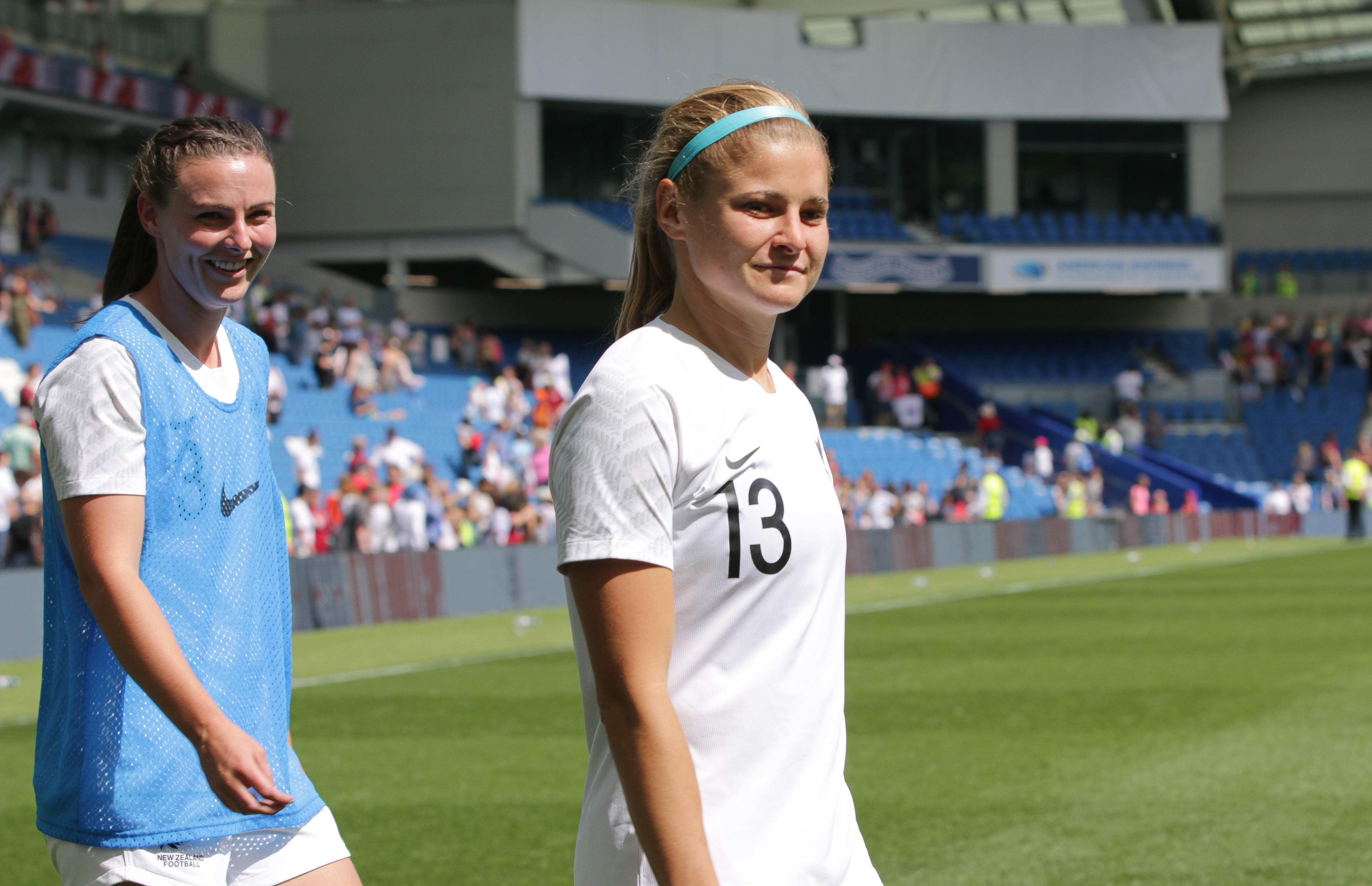 Depicted person: Rosie White – New Zealand association football player